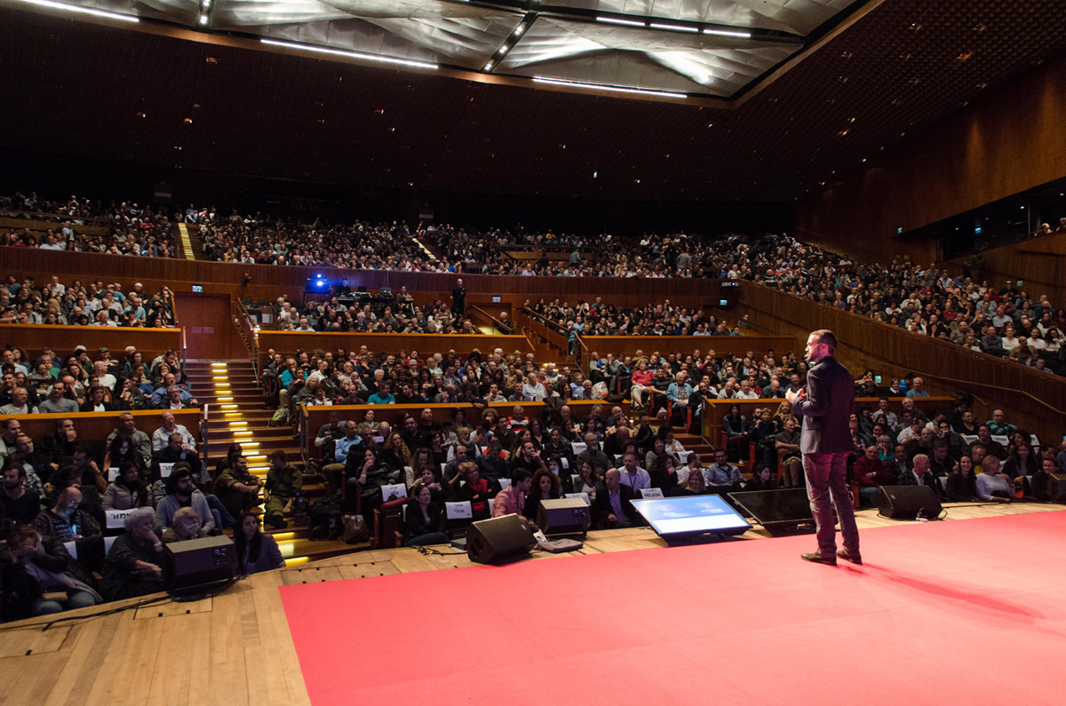 Heichal Hatarbut Tel Aviv Roie Galitz Speaking in Israeli Photography Convention 2018